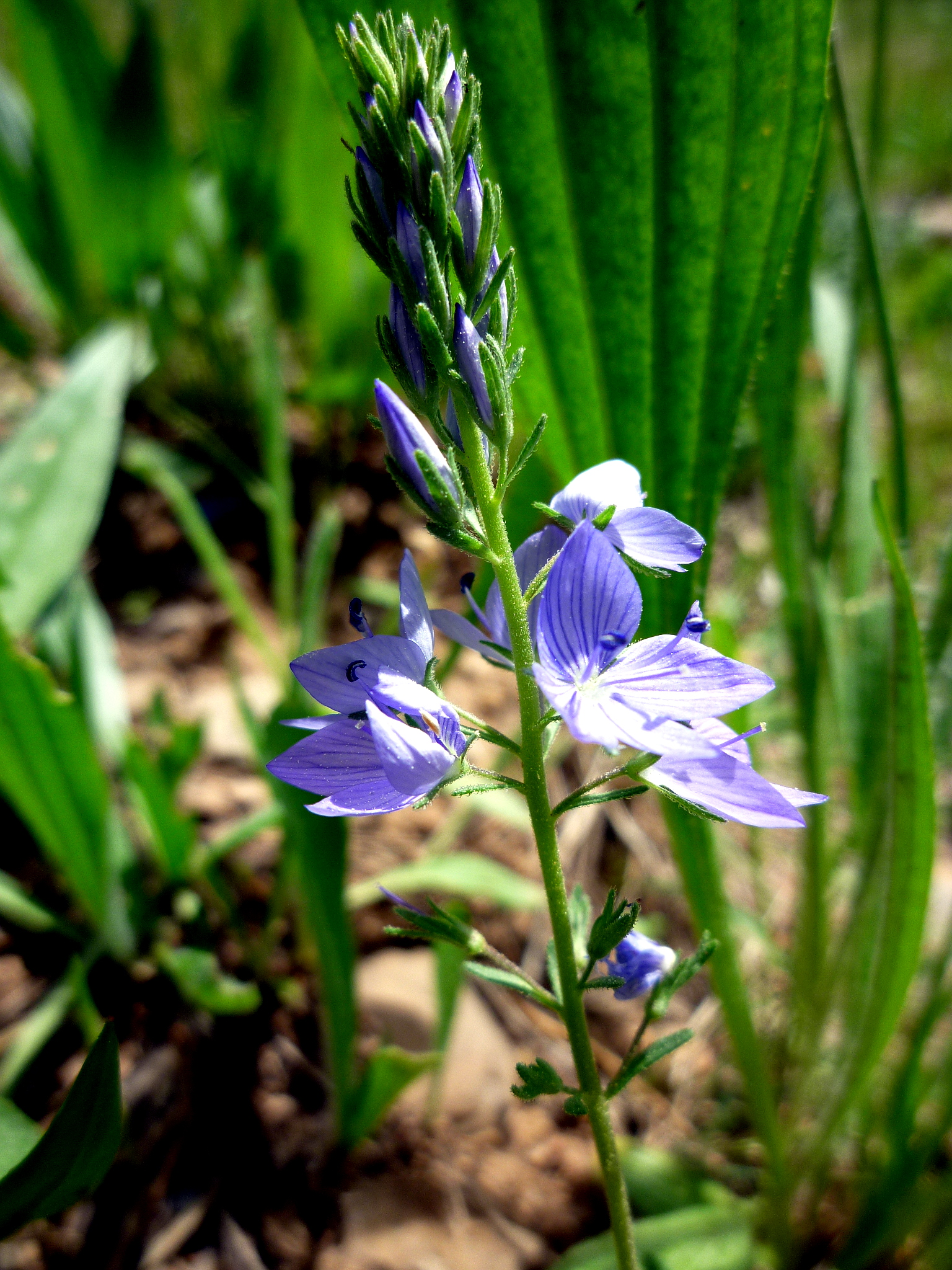 Veronica austriaca. In Guixers (Solsonès - Catalunya), to 1.100 m. altitude